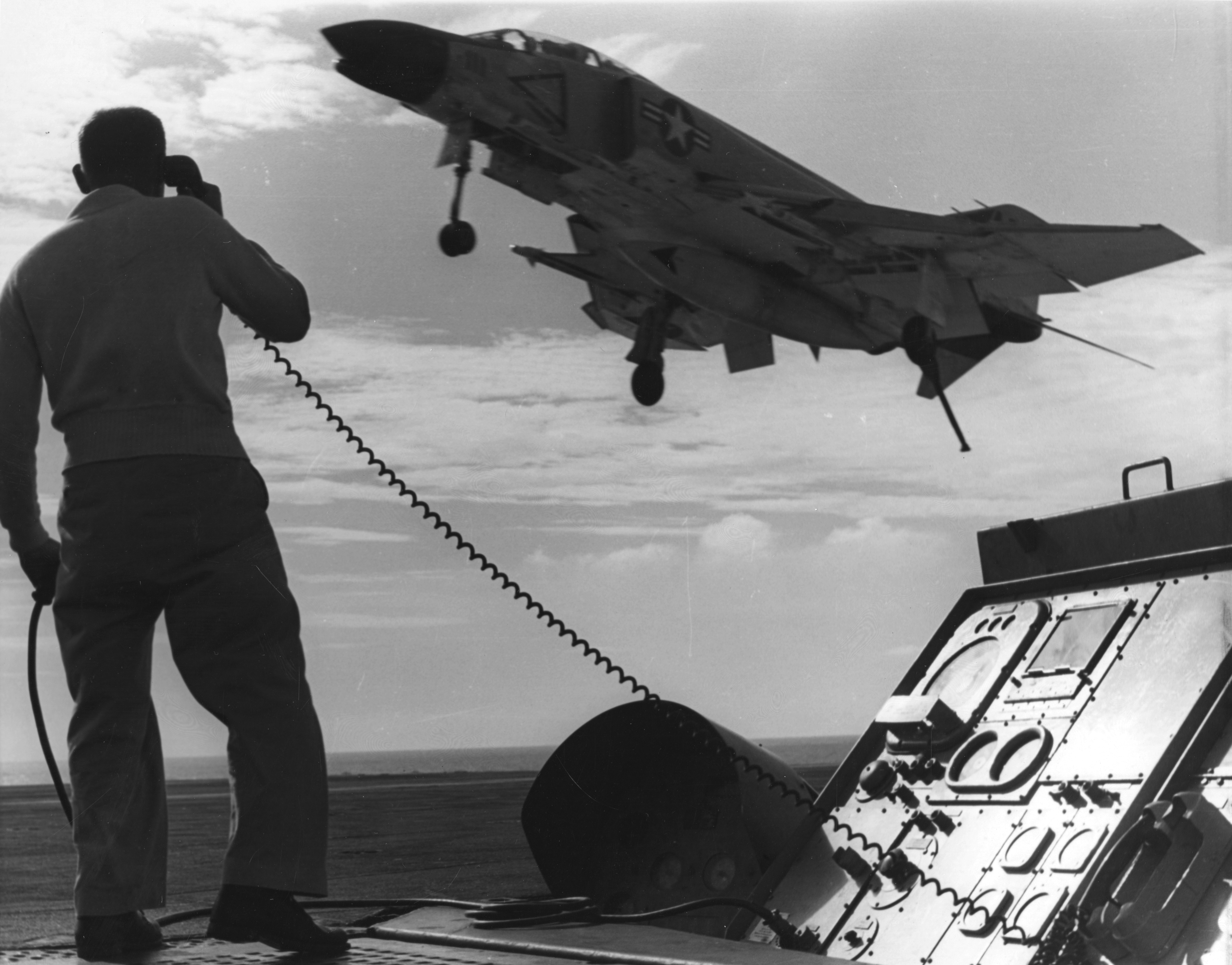 A U.S. Navy McDonnell F-4B Phantom II from Fighter Squadron 21 (VF-21) "Free Lancers" returns to the aircraft carrier USS Midway (CVA-41), after a mission over north Vietnam, in 1965. Landing signal officer Lt. Vernon Jumper talks to the pilot on the radio, advising him as his plane approaches the pitching deck of the carrier. VF-21 was assigned to Attack Carrier Air Wing 2 (CVW-2) aboard the Midway for a deployment to Vietnam from 6 Marcht to 23 November 1965.